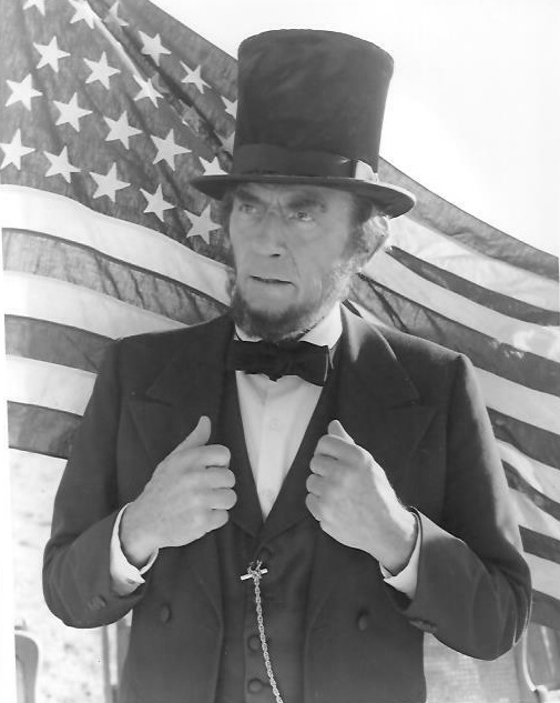 Gregory Peck in the American television miniseries The Blue and the Gray (1982). See also film still. No copyright notice.